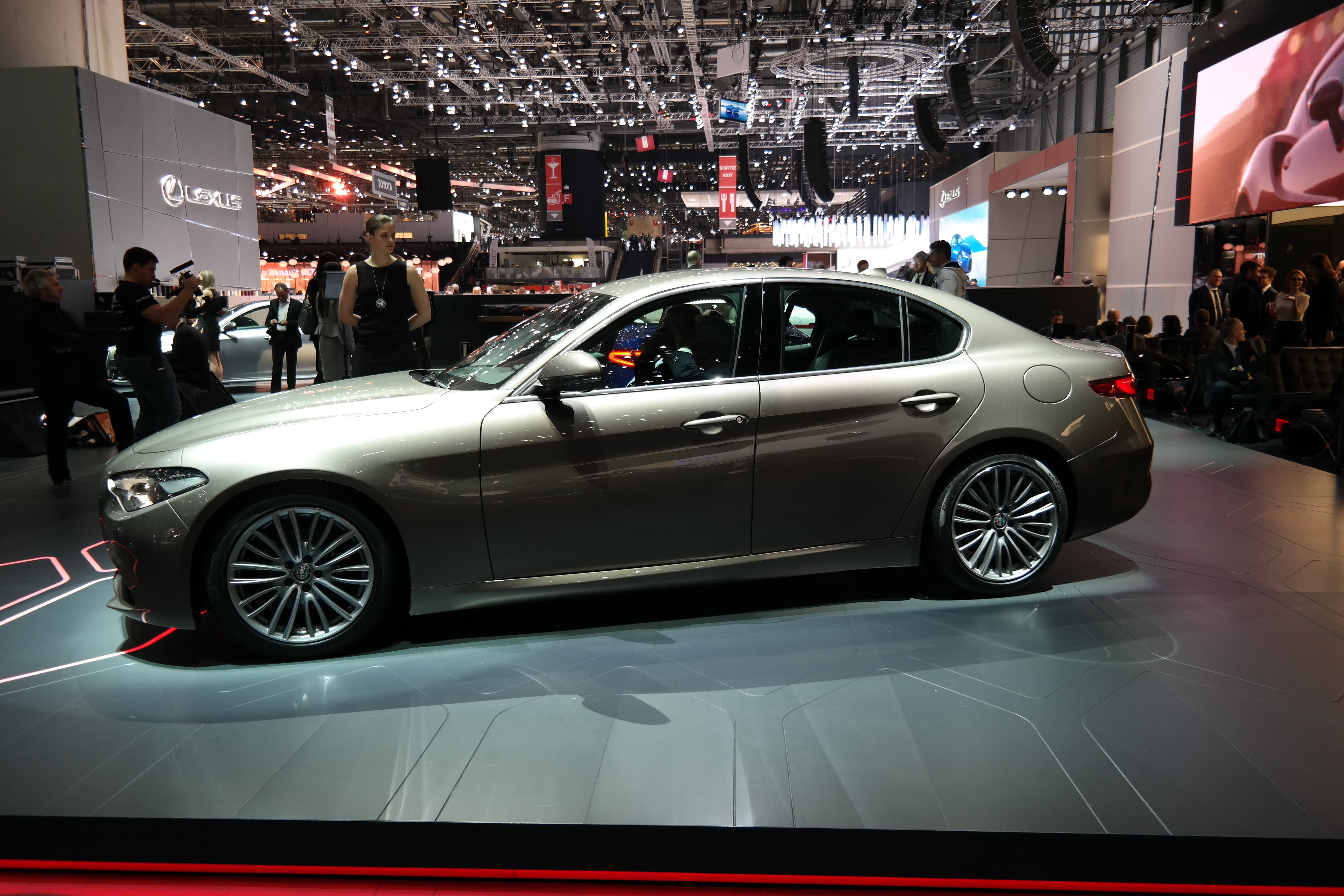 Geneva Motor Show 2016 (photo taken on the first press day)